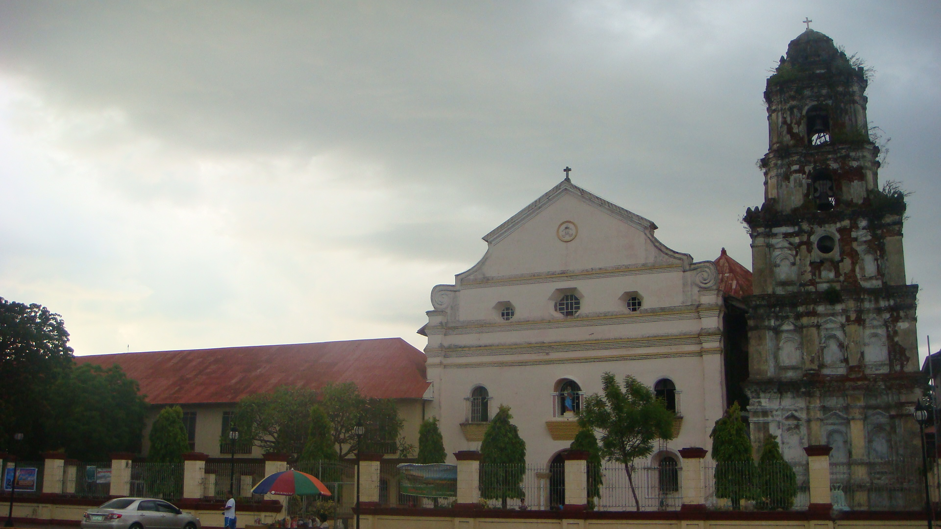 List of Cultural Properties of the Philippines in Binmaley, Pangasinan Church of the Purification of Our Lady Parish 16°1'48"N 120°16'7"E Mary Help of Christians Seminary of Binmaley Archdiosesan High School Seminary in Category:Sitios and puroks of the Philippines Subdivisions of the Philippines List of barangays in Pangasinan, Barangays of Pangasinan, Barangay Poblacion, Binmaley, Pangasinan 16.0265, 120.2727 Binmaley, Pangasinan along Pangasinan-Zambales road Daang Kalikasan (Nature's Highway) 60-kilometer Pangasinan-Zambales East-West Road Project from Mangatarem, Pangasinan side to Santa Cruz, Zambales from or along Urdaneta Junction-Dagupan-Lingayen Road MacArthur Highway or Manila North Road) surrounded by the Agno Valley of Agno River Philippine highway network.